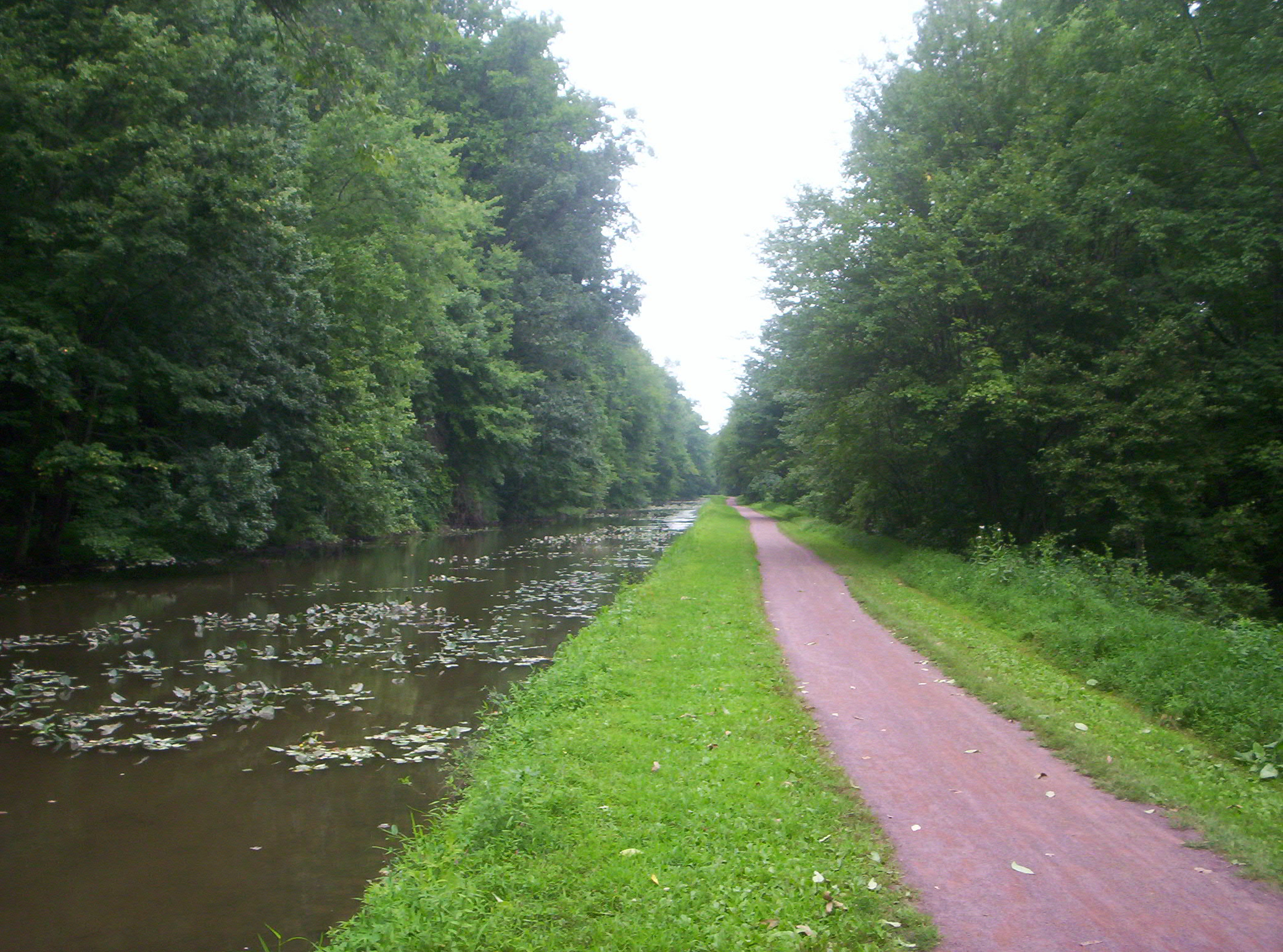 Delaware Canal State Park in Pennsylvania - view of trail